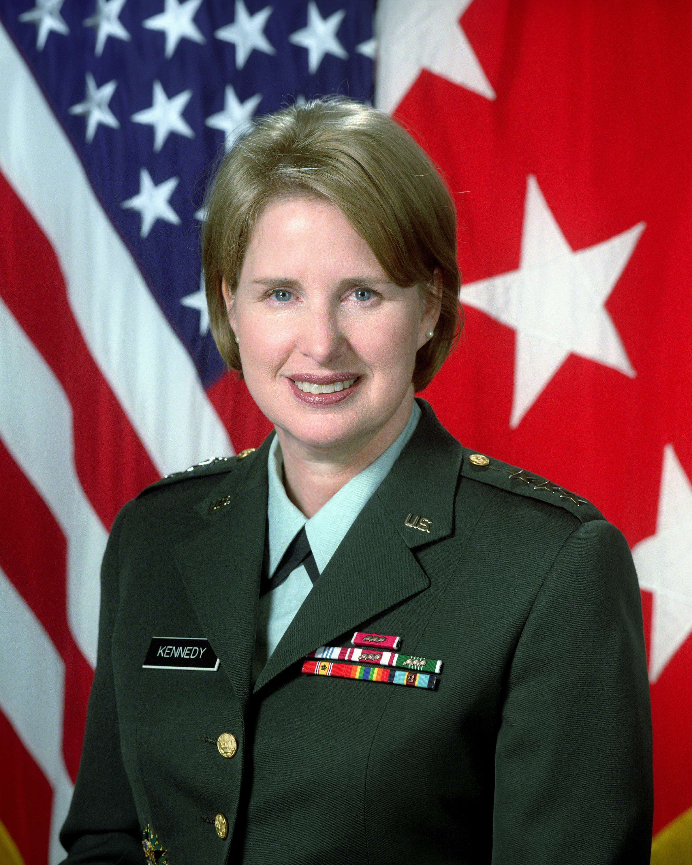 Lt. Gen. Claudia Kennedy from [1]